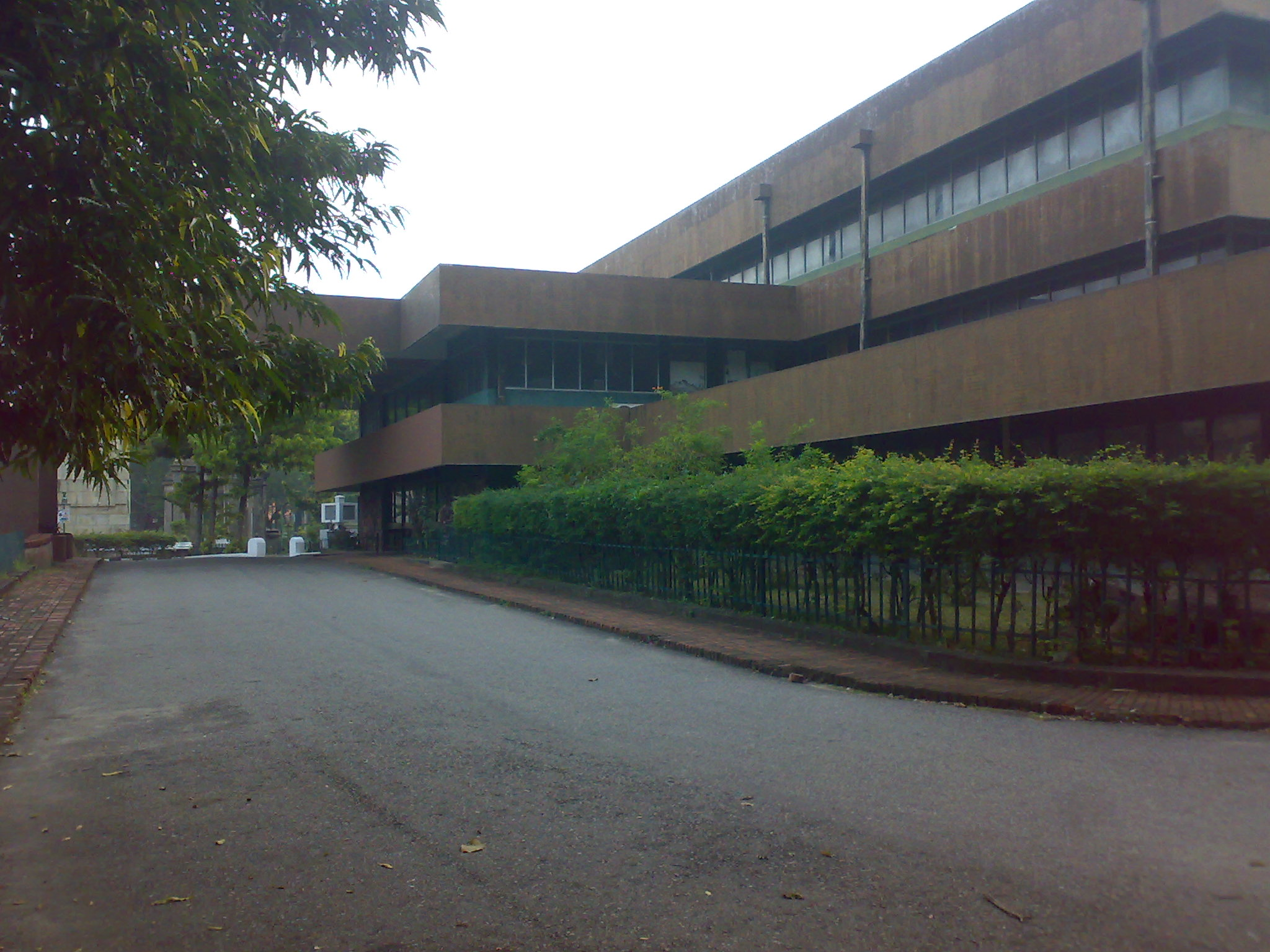 Colombo Public Library